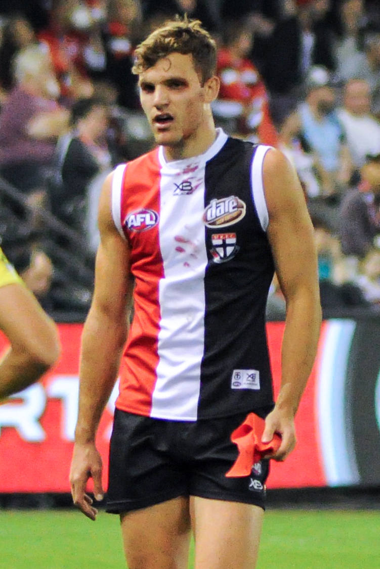 Brandon White during the AFL round five match between St Kilda and Greater Western Sydney on 21 April 2018 at Etihad Stadium in Melbourne, Victoria.